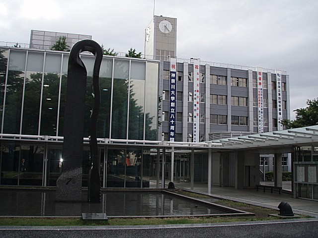 The Building 8 (clock tower) [1] on Yokohama Campus, Kanagawa University. The original uploader took this picture on May 5, 2008.